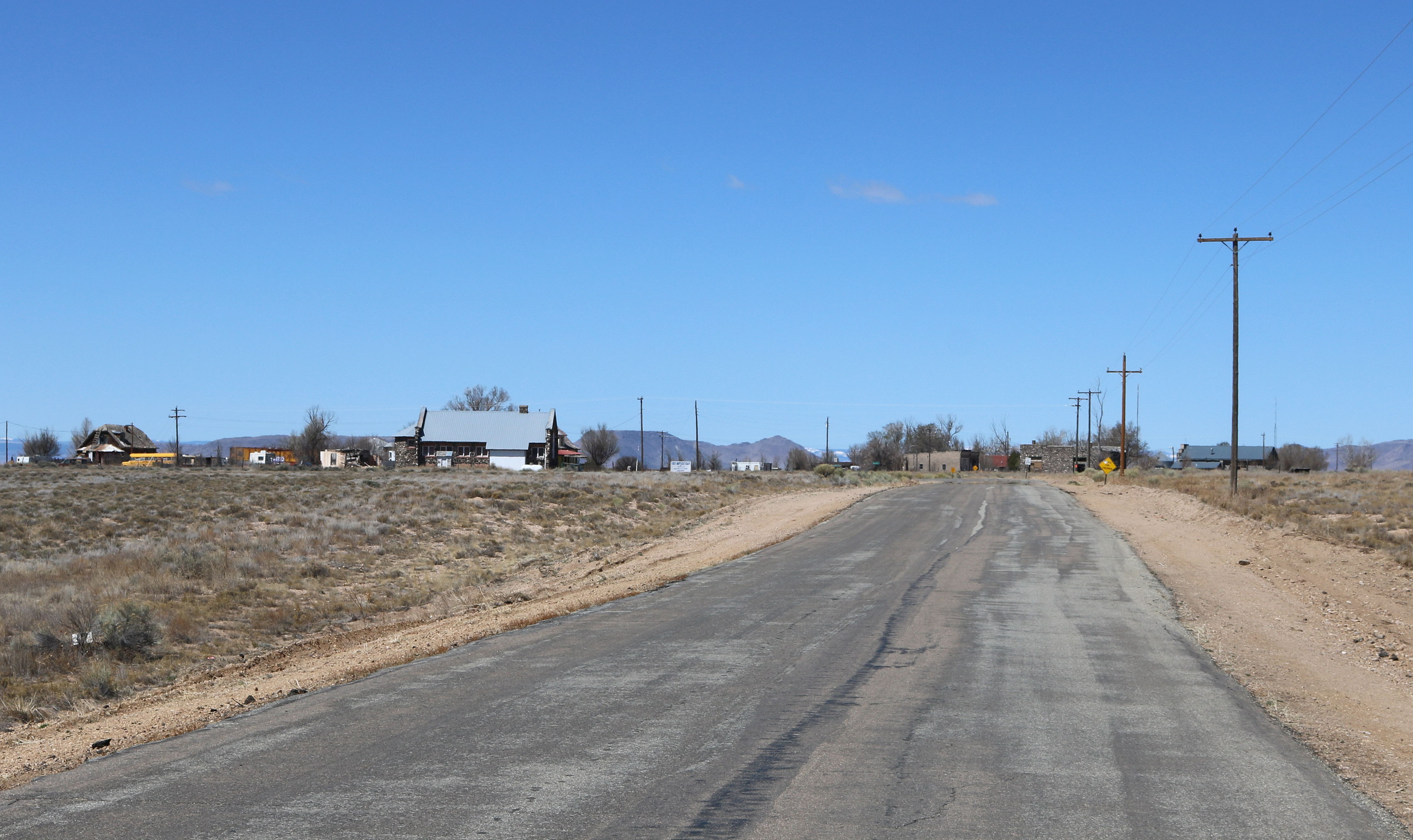 A view of Mesita, Colorado, looking west along Costilla County Road H from just east of the community.